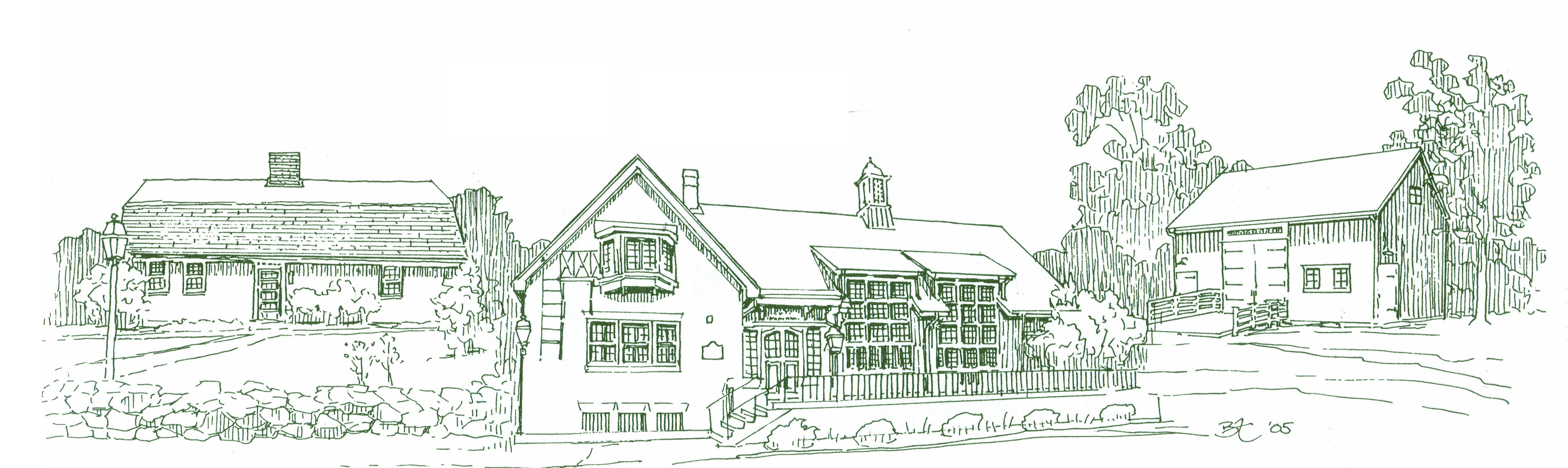 Rehoboth Antiquarian Society/Carpenter Museum line drawing used for heading on web pages.